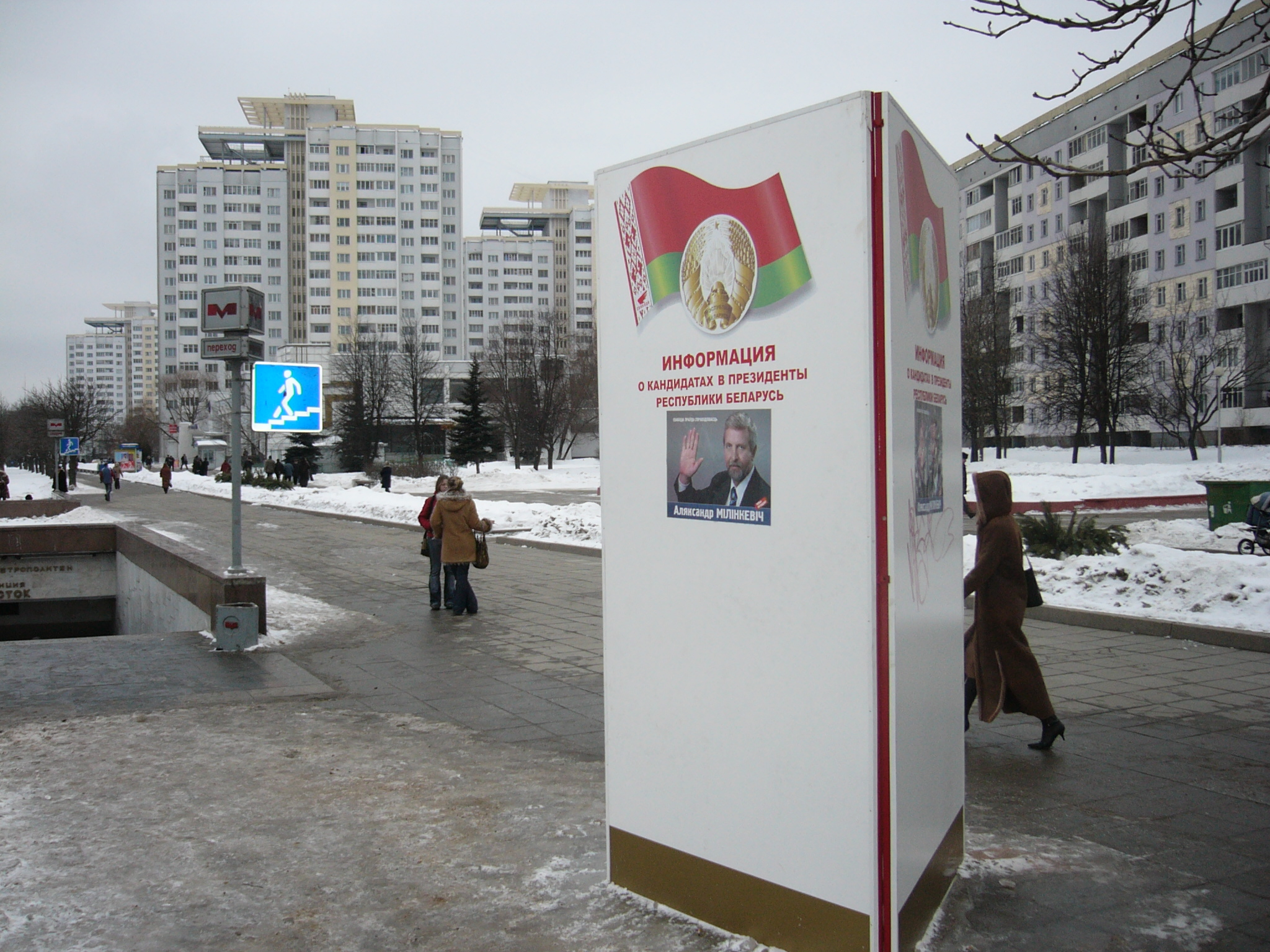 Agitation stand at President elections 2006, Minsk, Belarus Photo by Redline